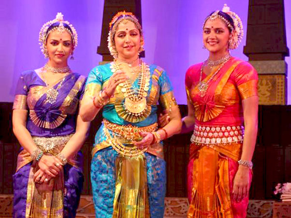 Hema Malini, Esha and Ahana perform together in Nov 21, 2010